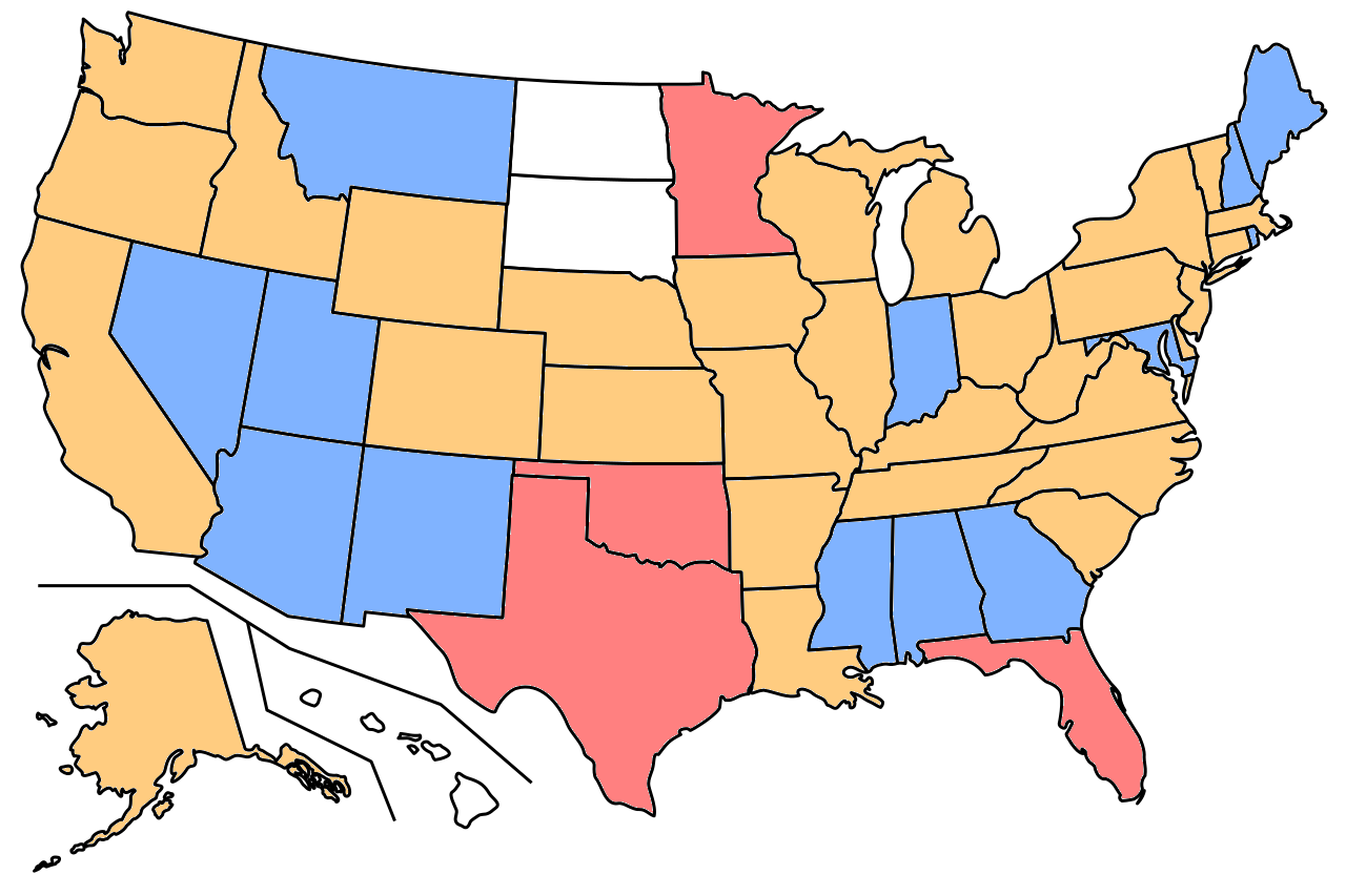 Recognition of Juneteenth as a holiday in the US 320